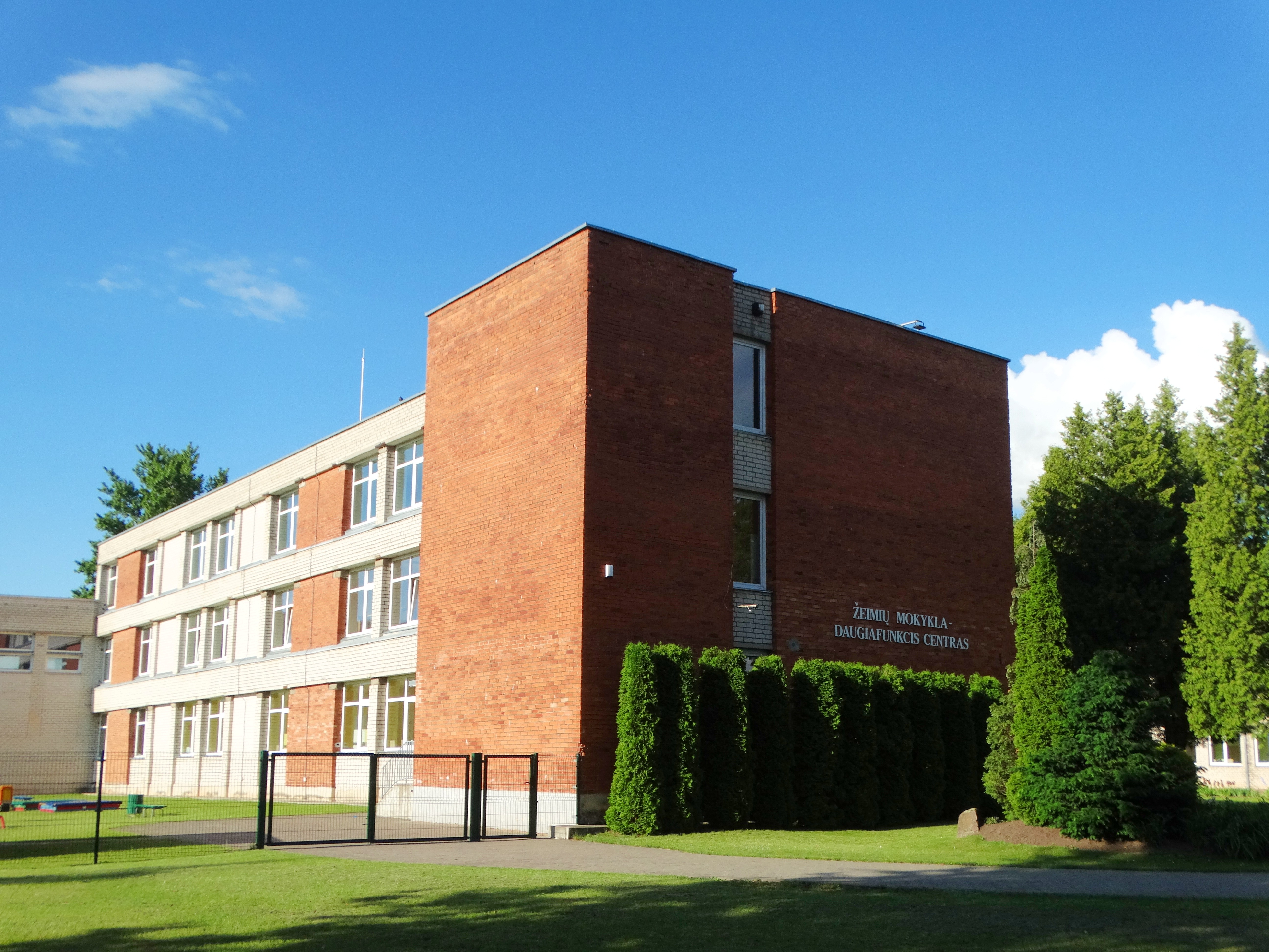 School, Žeimiai,Jonava district, Lithuania